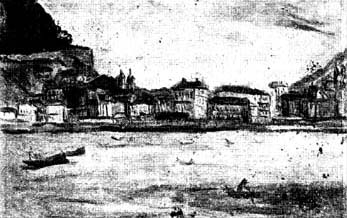 Spanish beach, Na Hye-sok